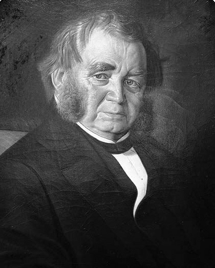 Painting of Francis H. Medcalf, Mayor of Toronto, Canada from 1864-1866 and 1874-1875.